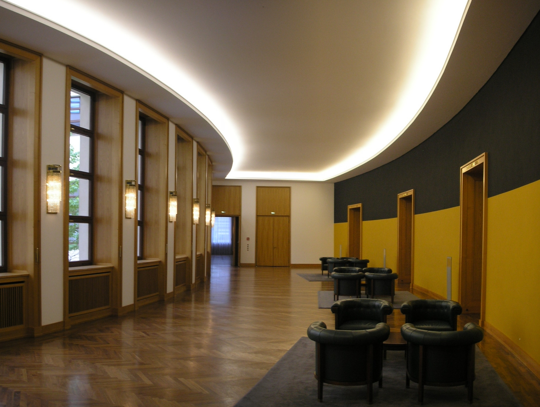 View of the foyer in front of the Außenministersäle in the Foreign Office in Berlin This panoramic image was created with Autostitch. Stitched images may differ from reality.